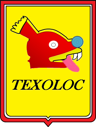 Coat of arms of San Damián Texoloc, locality located in the homonymous municipality in the state of Tlaxcala, Mexico.